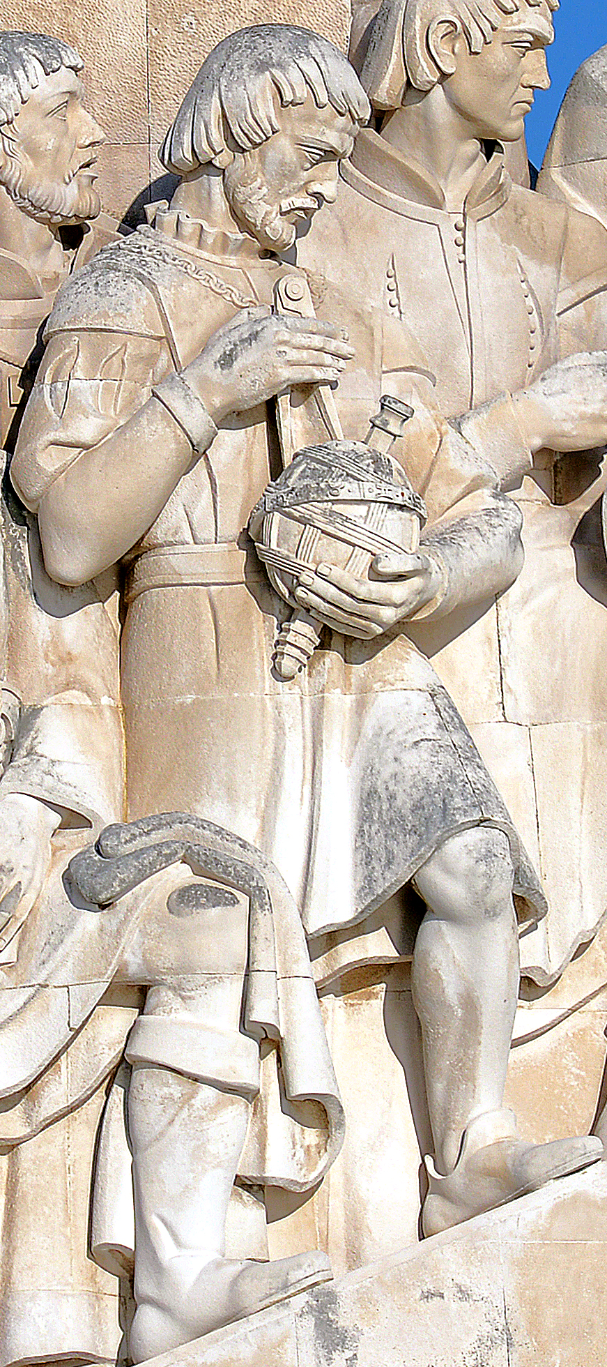 Effigy of Pedro Nunes (1502-1578), a Portuguese mathematician and cosmographer, in the Padrão dos Descobrimentos (Monument to the Discoveries), in Lisbon, Portugal.